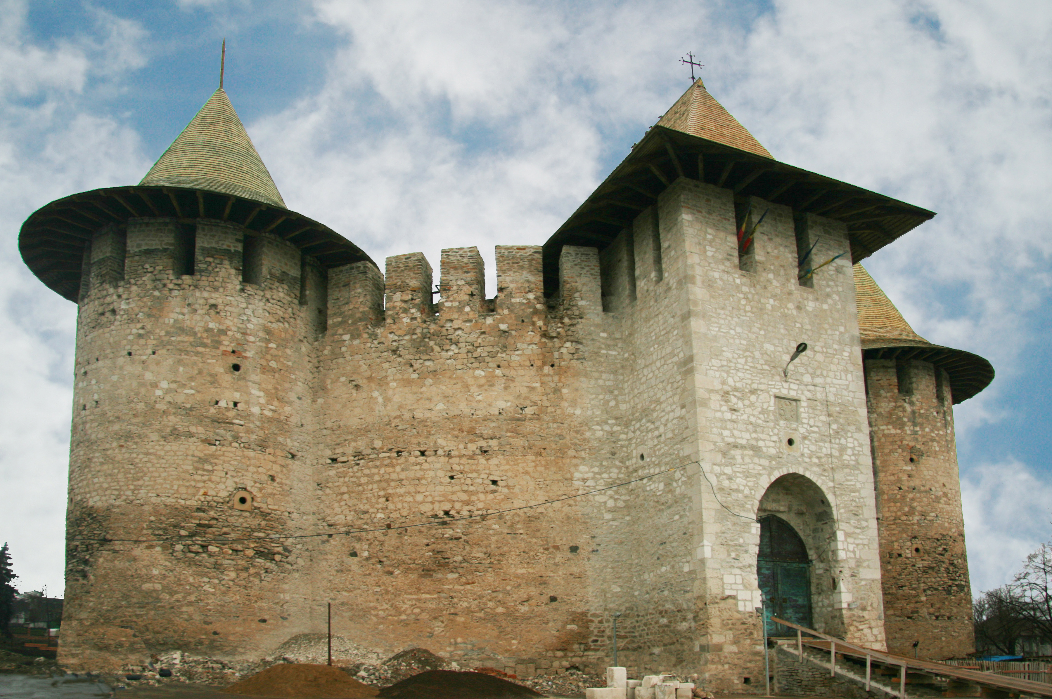 Several new photos from the Soroca forteress, situated in Republic of Moldova, currently in full renovation (2015).